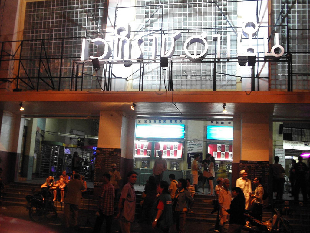 Rajadamnern Stadium, an indoor sports arena in Bangkok